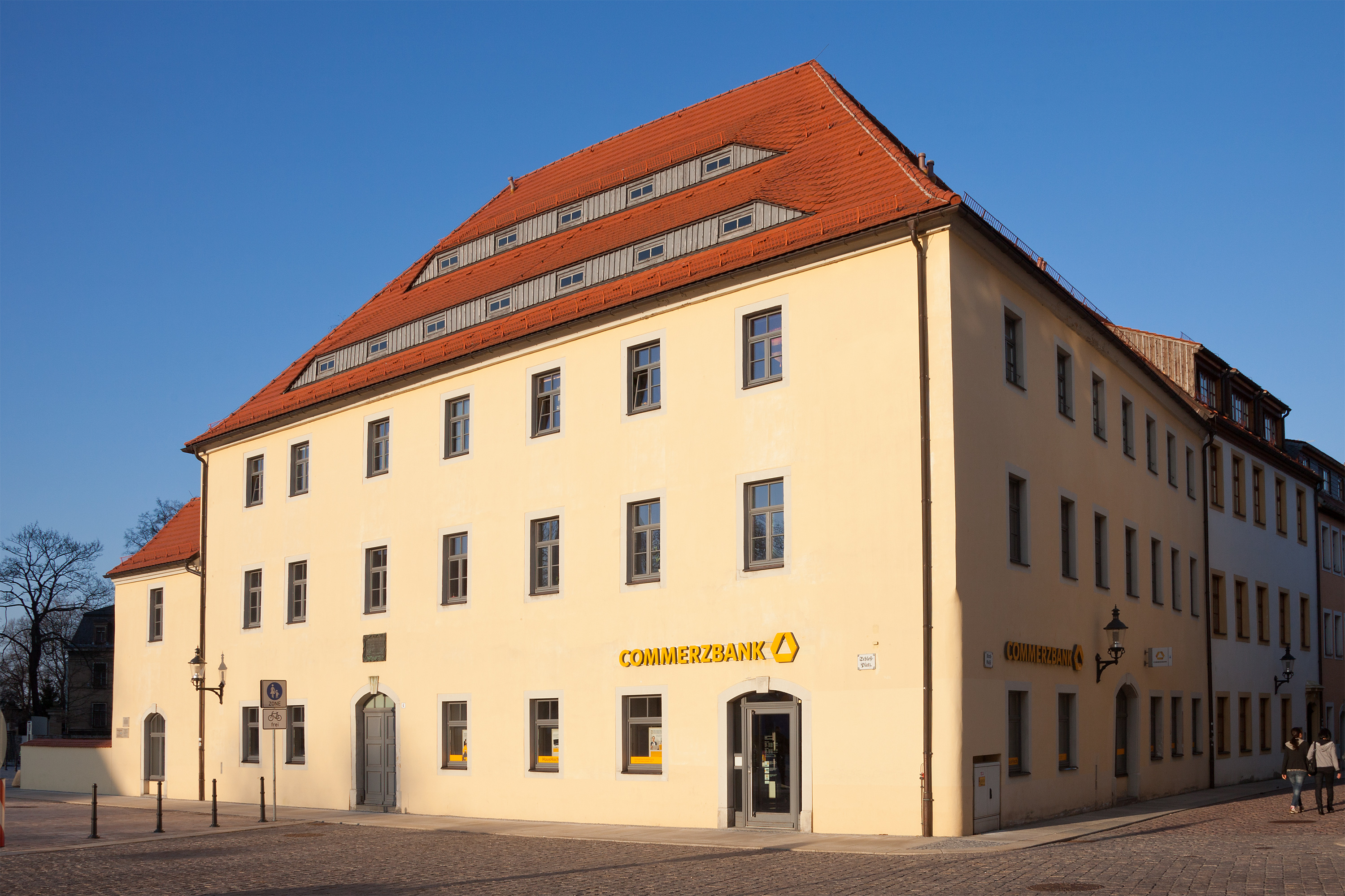 Freiberg, Silbermannhaus, Schlossplatz (Gottfried Silbermann worked here.)